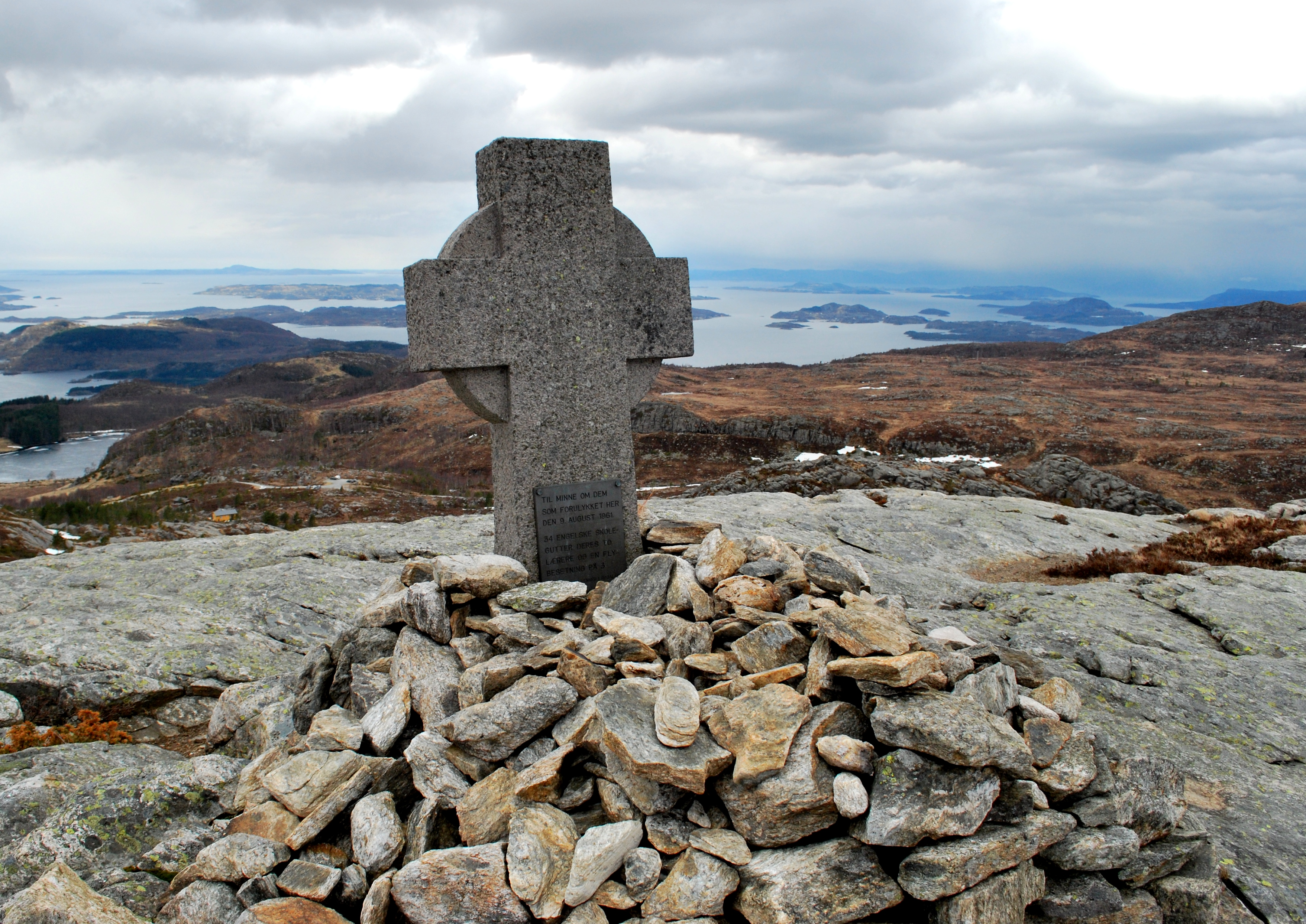 Picture of the memorial where on August 9, 1961, a Vickers VC.1 Viking passenger aeroplane, G-AHPM operated by Cunard Eagle Airways crashed into the mountainside above the farm (Holtaheia). 34 students, two teachers and three crew members were killed.